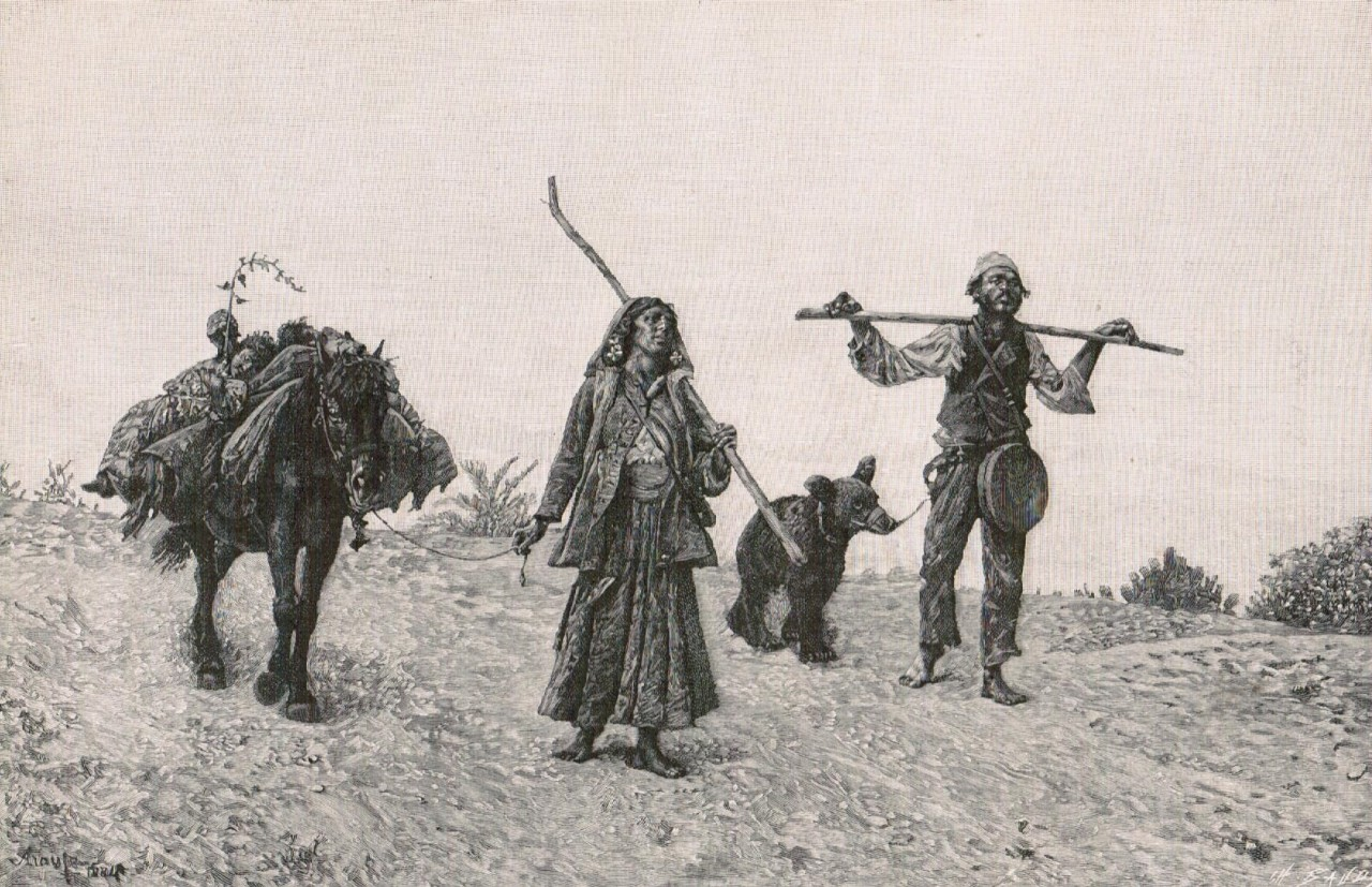 Gypsy bear-leaders